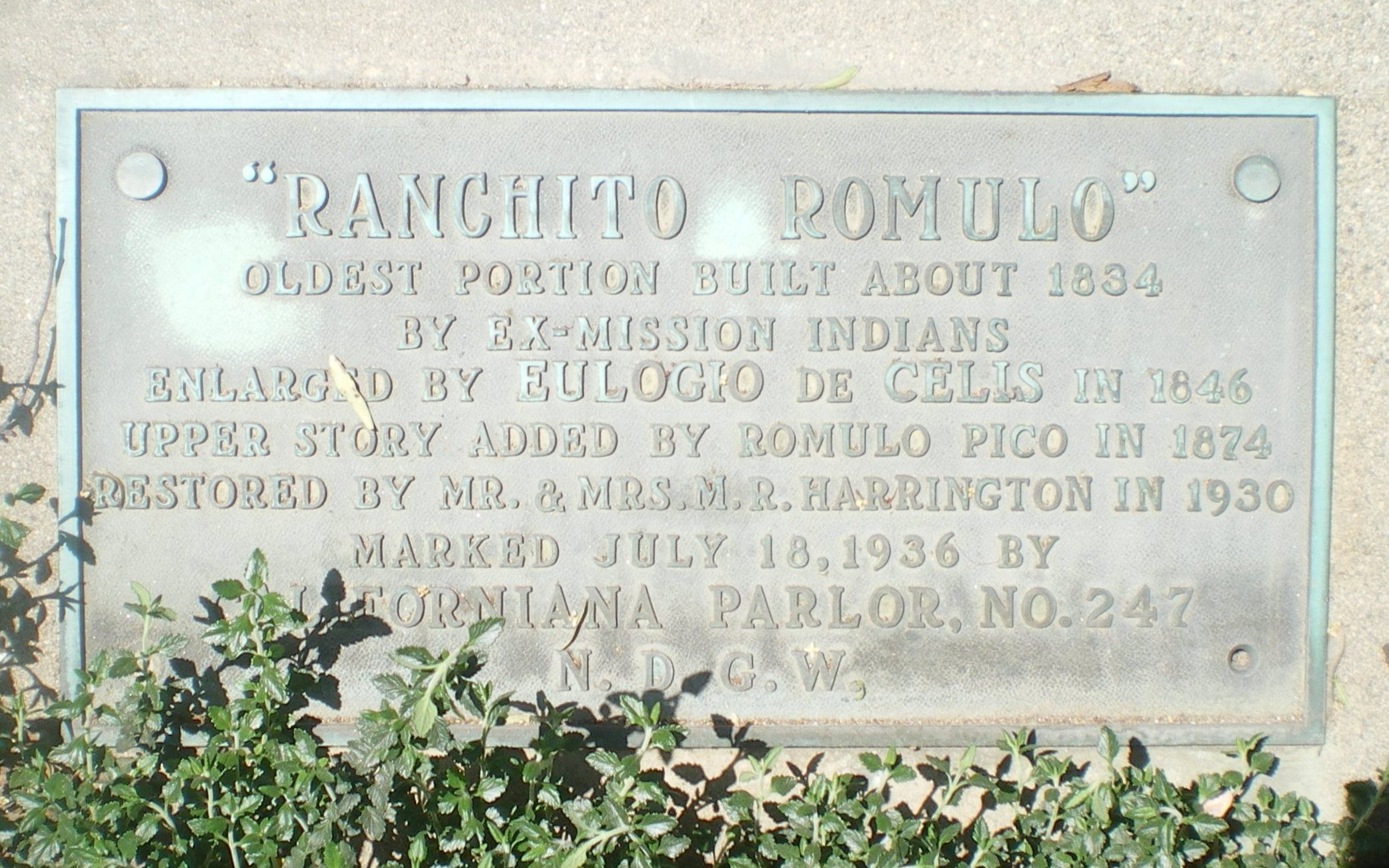 California Historical Marker No. 247 for Ranchito Romulo — at the Rómulo Pico Adobe in Mission Hills, San Fernando Valley, California.